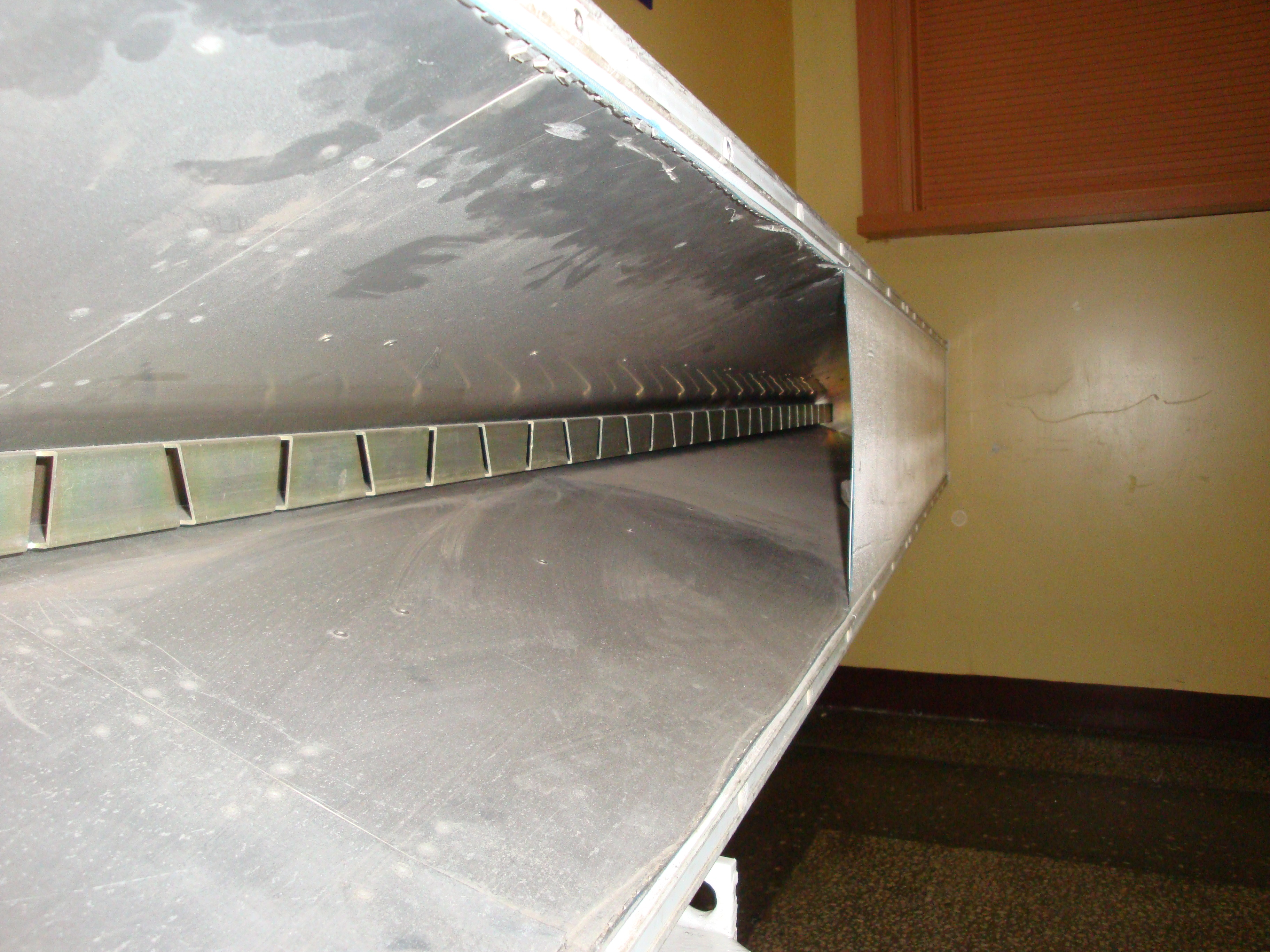 Slotted waveguide antenna of S-band (2 - 4 GHz) marine radar, with section of plastic cover cut away to show internal construction. Exhibit in Gdynia Maritime School, Poland. This common type of marine radar antenna consists of a waveguide in a V-shaped metal reflector, with many slots cut in it. It radiates a narrow vertical fan-shaped beam of microwaves, perhaps 15° high and 2-3° wide, perpendicular to the long axis of the antenna. When installed in a ship, a motor rotates the bar-shaped antenna about a vertical axis, scanning the beam around the horizon, to search for other ships.